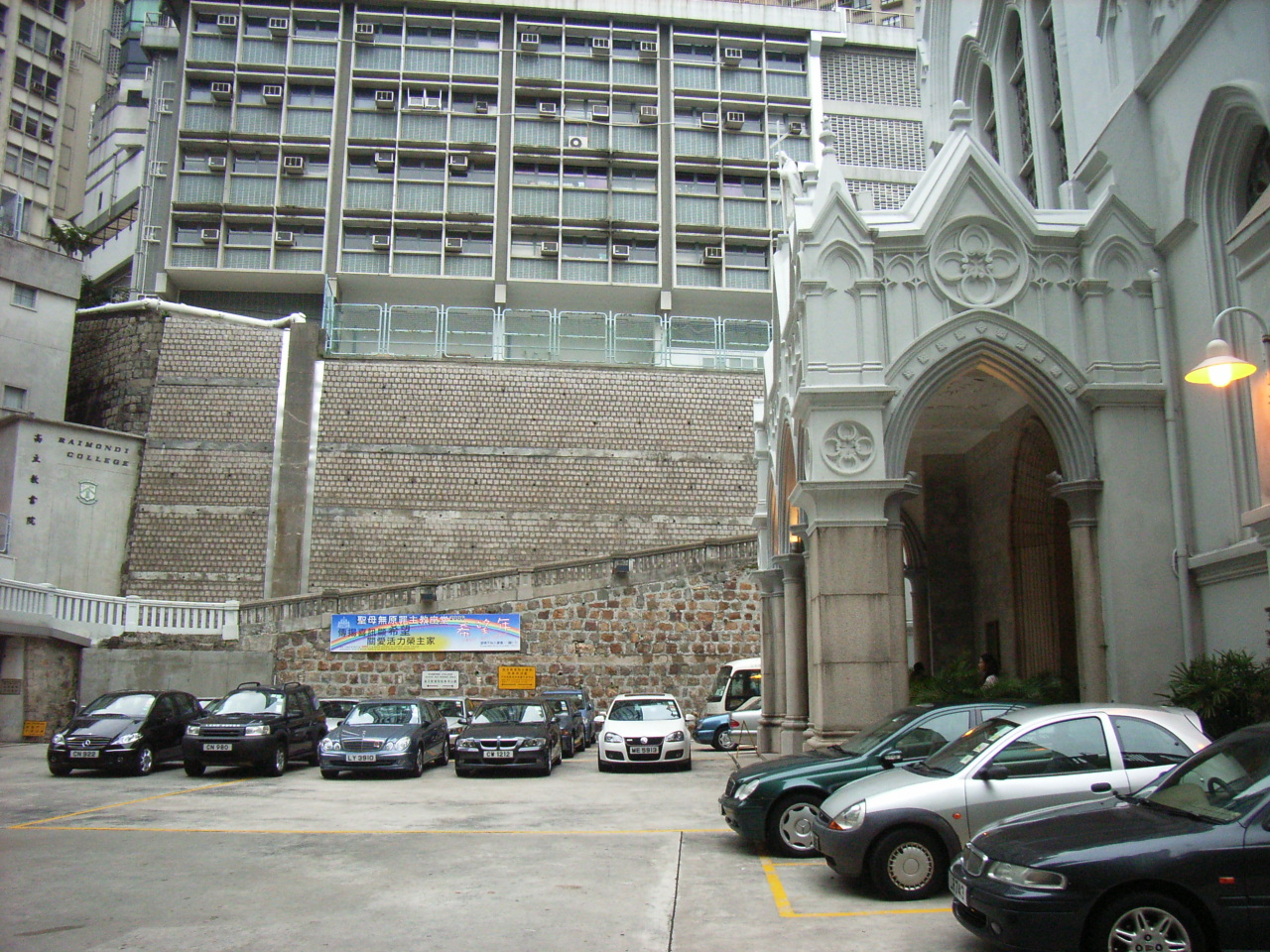 Immaculate Conception Cathedral of Hong Kong & carpark (by HKMMSBF).